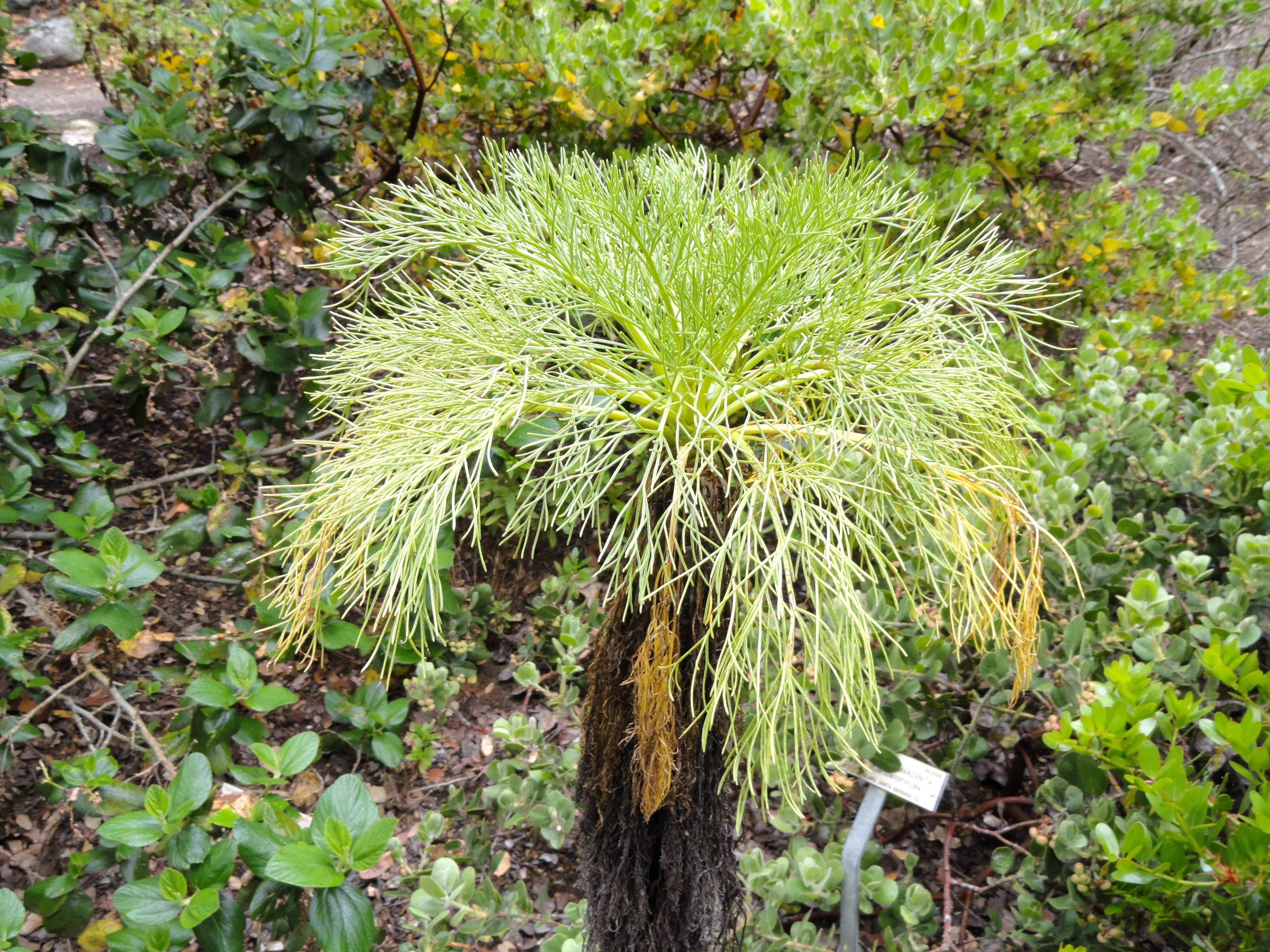 Coreopsis gigantea specimen in the University of California Botanical Garden, Berkeley, California, USA.